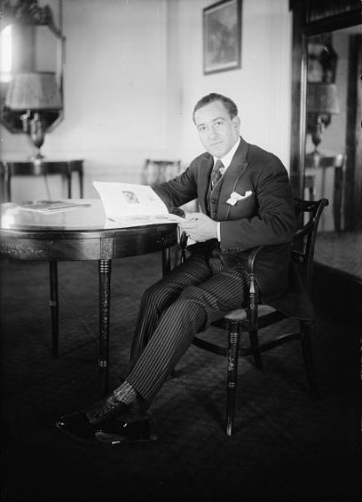 Miguel Fleta, Spanish tenor